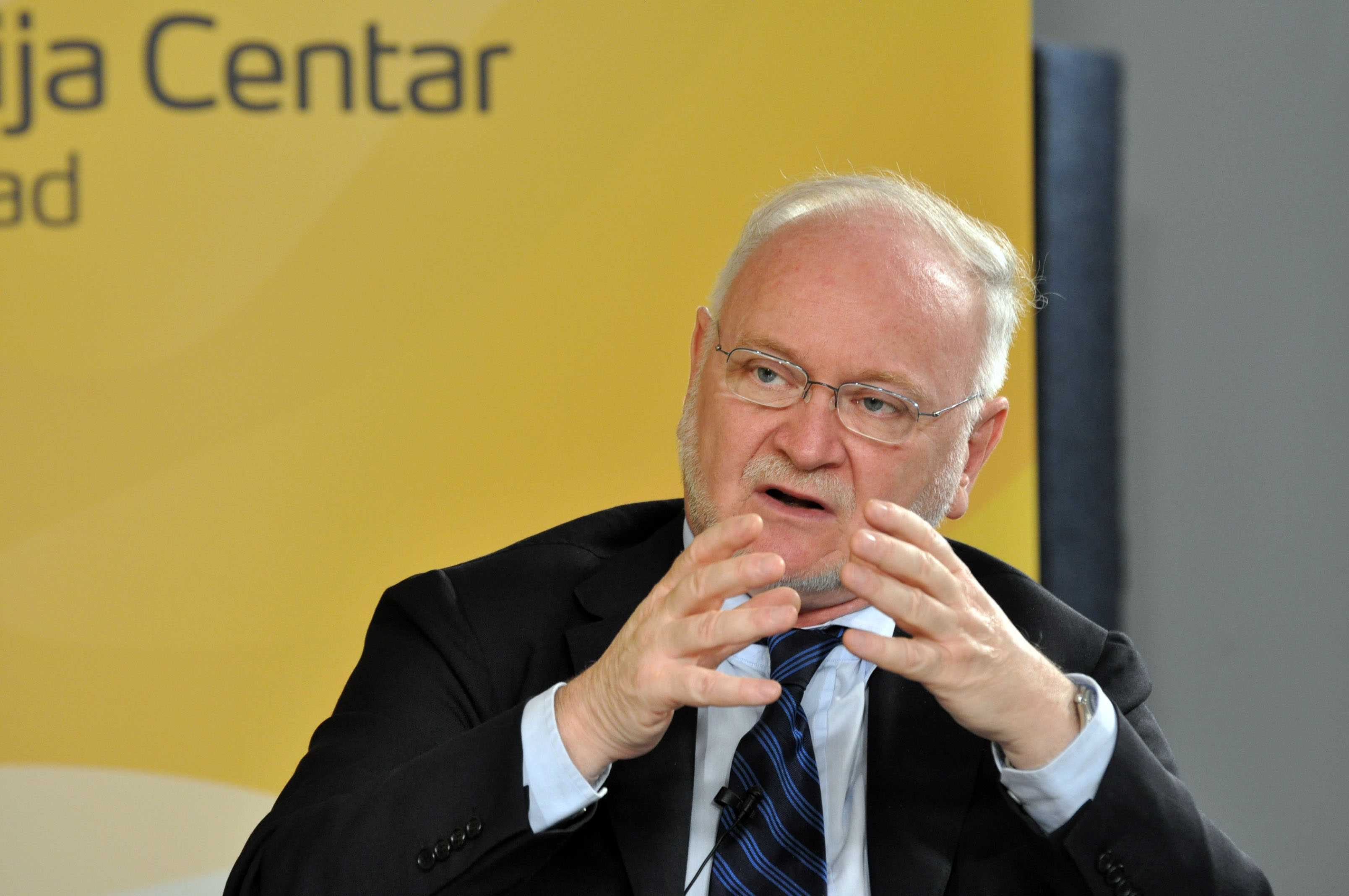 Žarko Korać